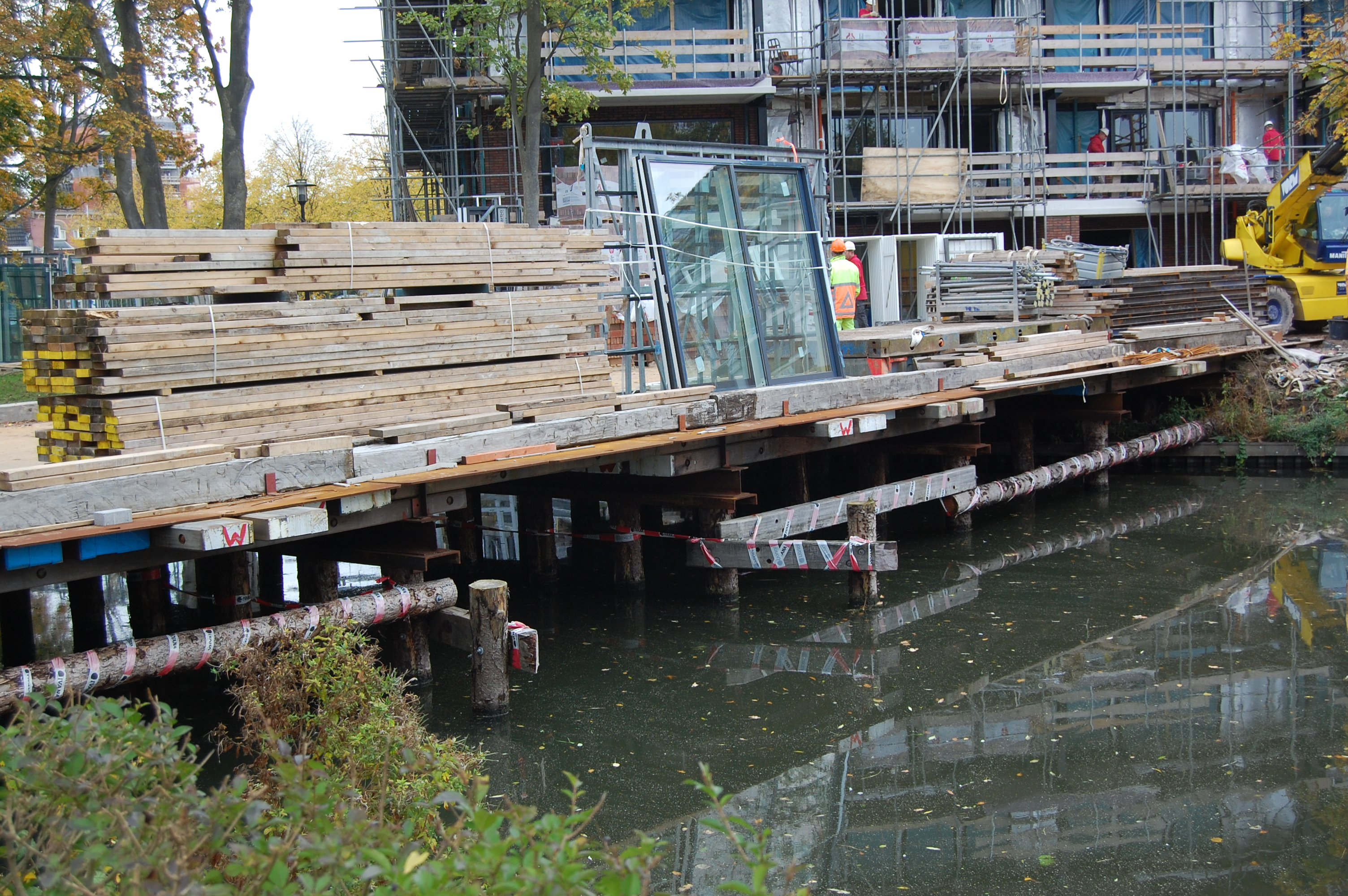 Temporary bridge in Woerden, The Netherlands